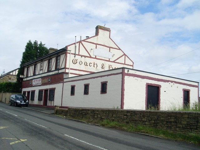 Coach & Horses Currently closed pub in the village of Newton.